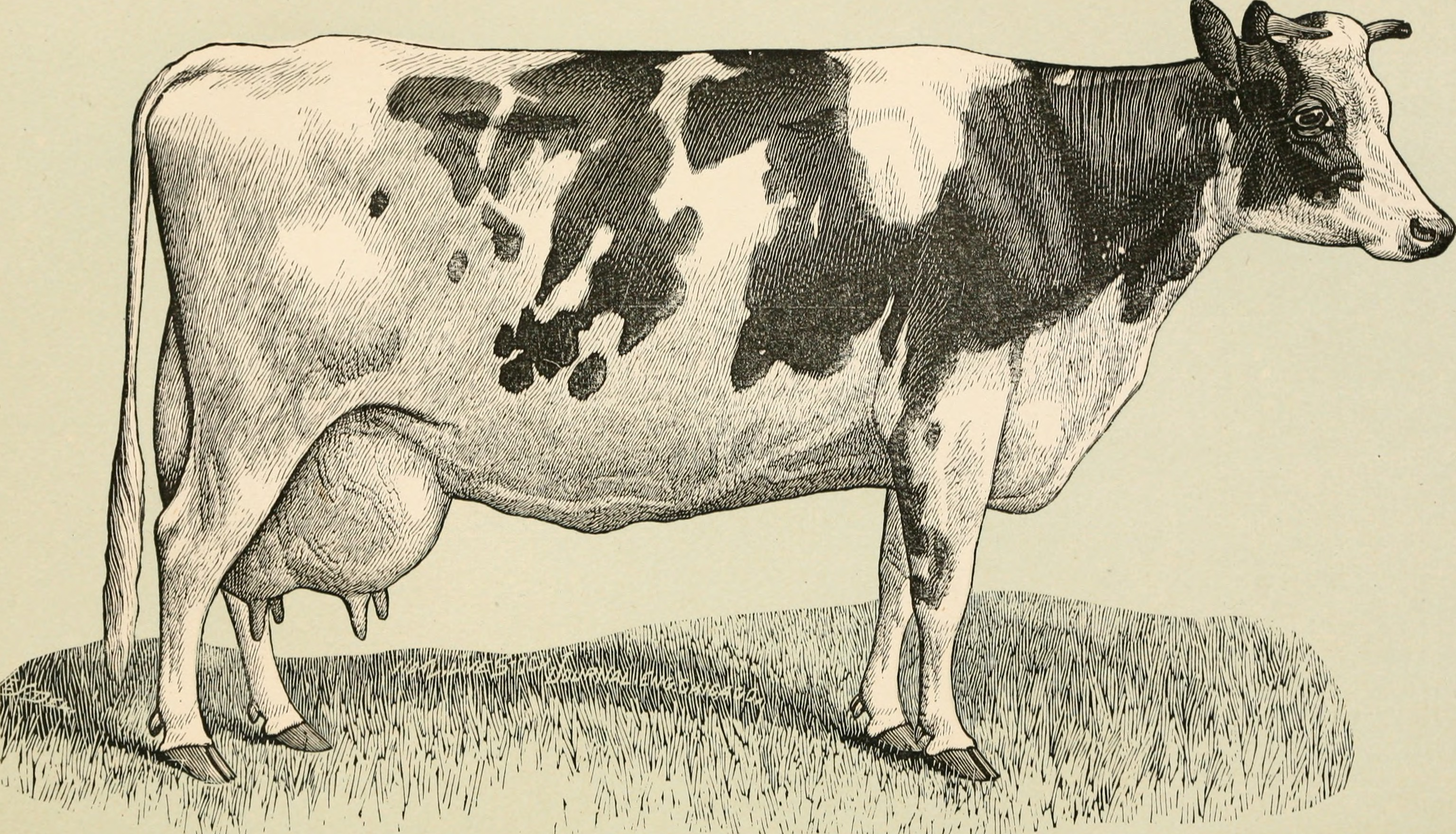 Title: The diseases of live stock and their most efficient remedies : including horses, cattle, cows, sheep, swine, fowls, dogs, etc. ... by William B. E. Miller and Lloyd V. Tellor Year: 1885 (1880s) Authors: Miller, William B. E; Tellor, Lloyd V Subjects: Domestic animals -- Diseases; Veterinary medicine Publisher: Philadelphia, H. C. Watts Text Appearing Before Image: ' Text Appearing After Image: '